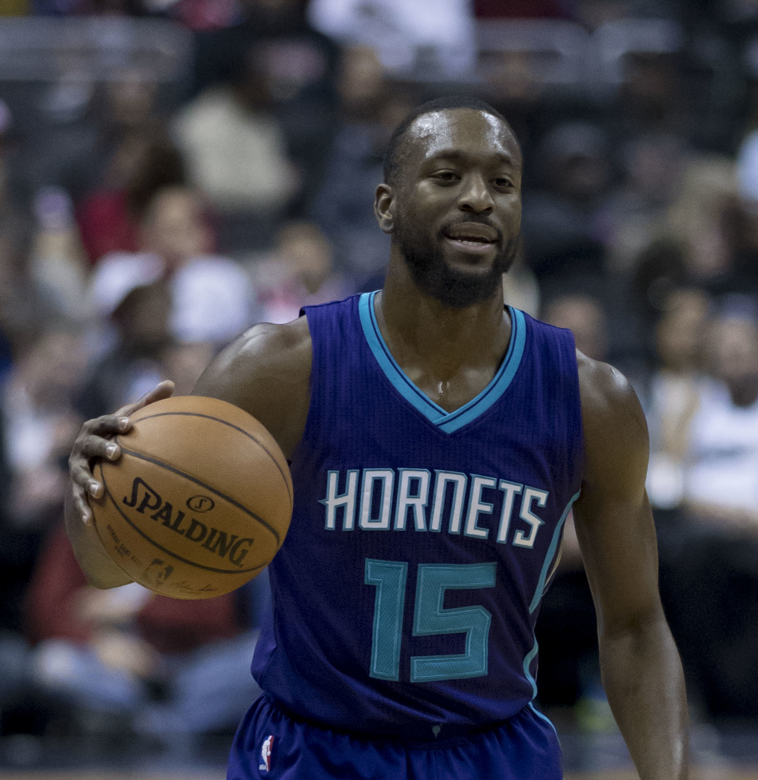 Hornets at Wizards 12/14/16